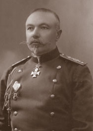 Bulgarian general Nikola Ivanov